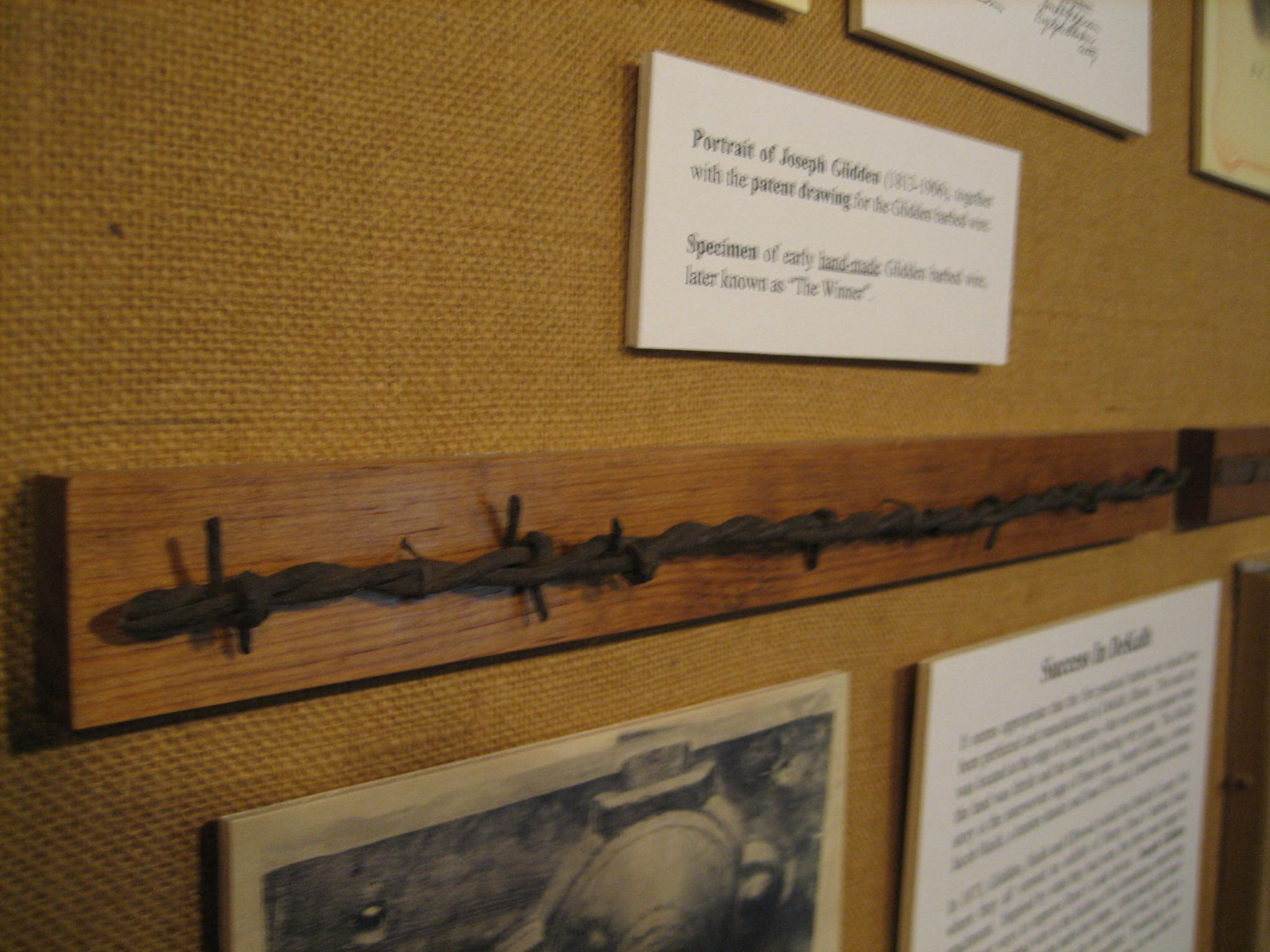 An early handmade specimen of Joseph Glidden's barbed wire, later dubbed "The Winner." Barbed Wire History Museum at the Ellwood House Visitor Center in DeKalb, Illinois.